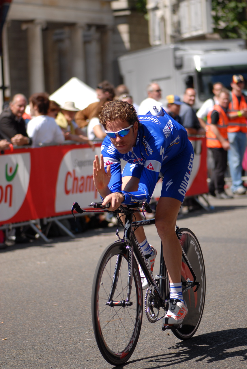 Bram Tankink, rider of Quickstep Innergetic